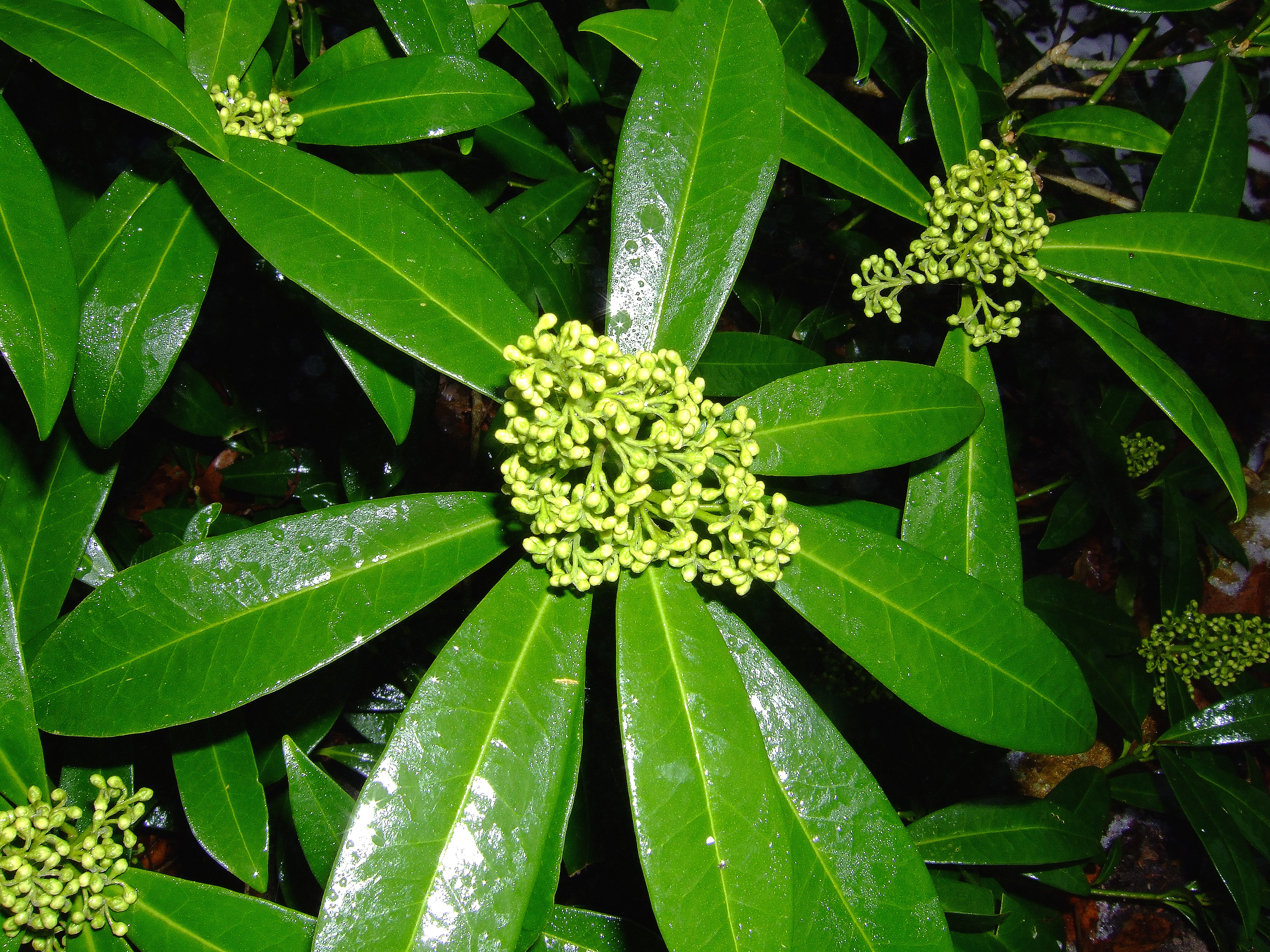 Skimmia japonica in bud.